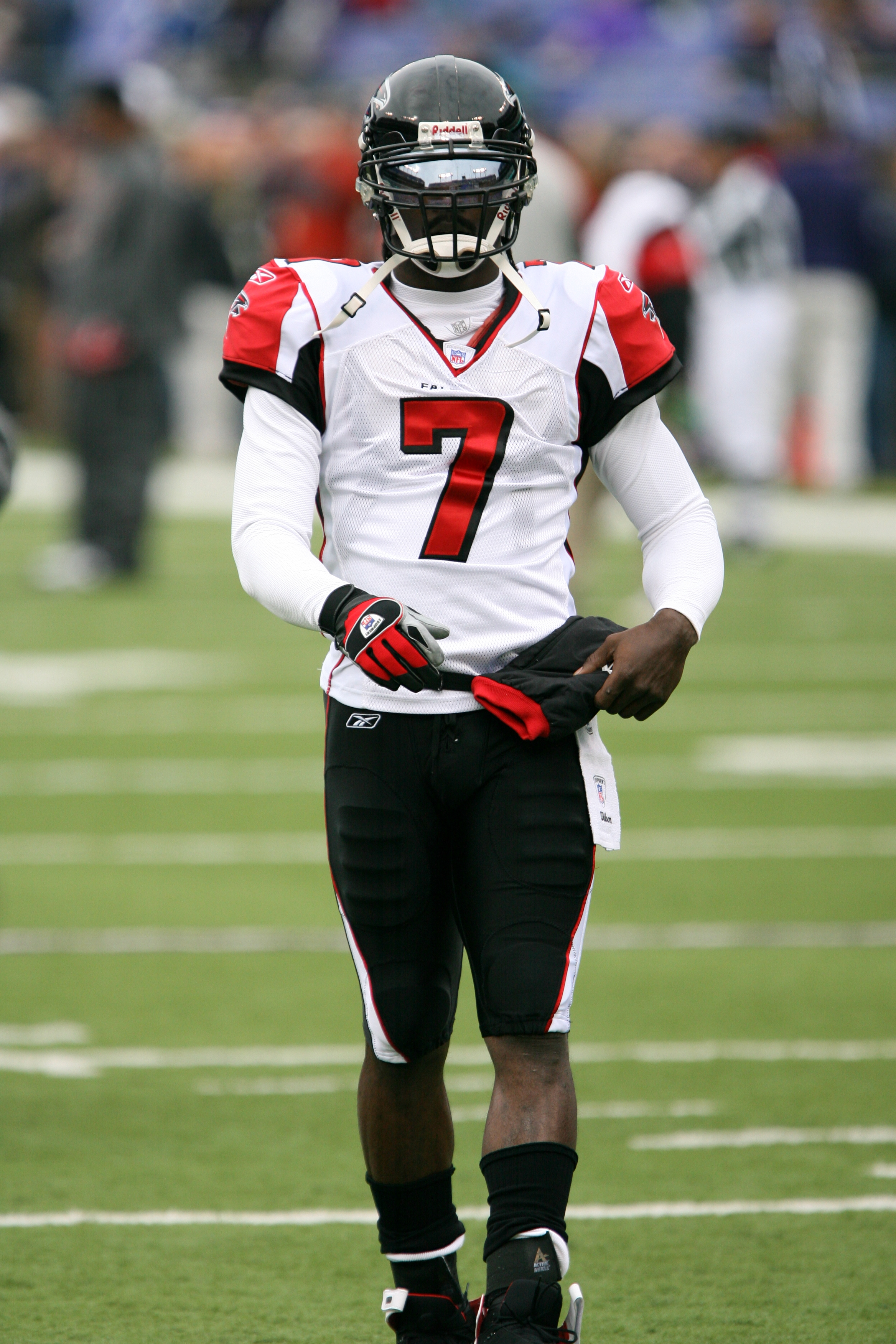 Michael Vick during a game against the Baltimore Ravens, November 19, 2006.